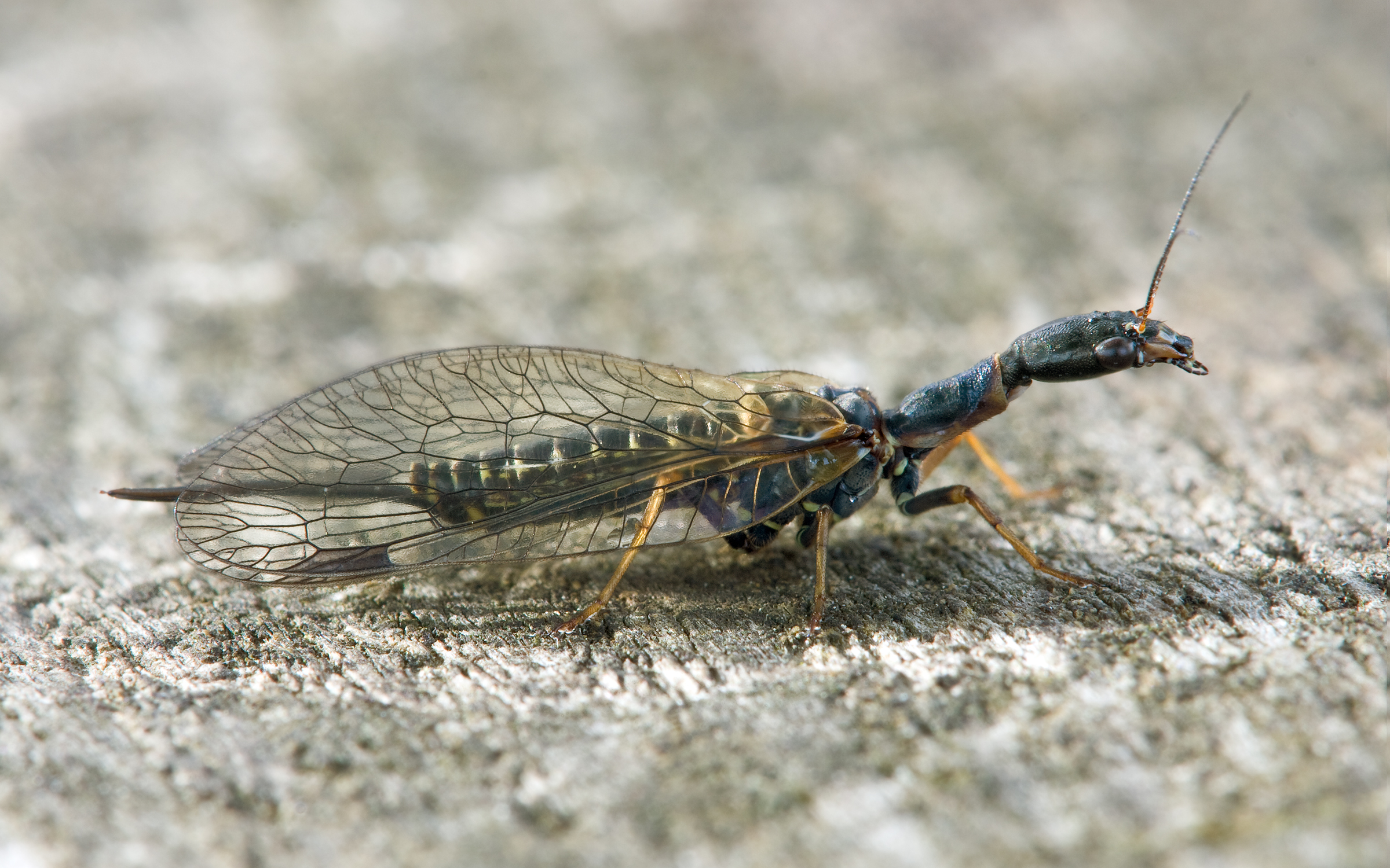 Female Snakefly (Phaeostigma major) Snakeflies are a group of insects in the order Raphidioptera, consisting of about 150 species.